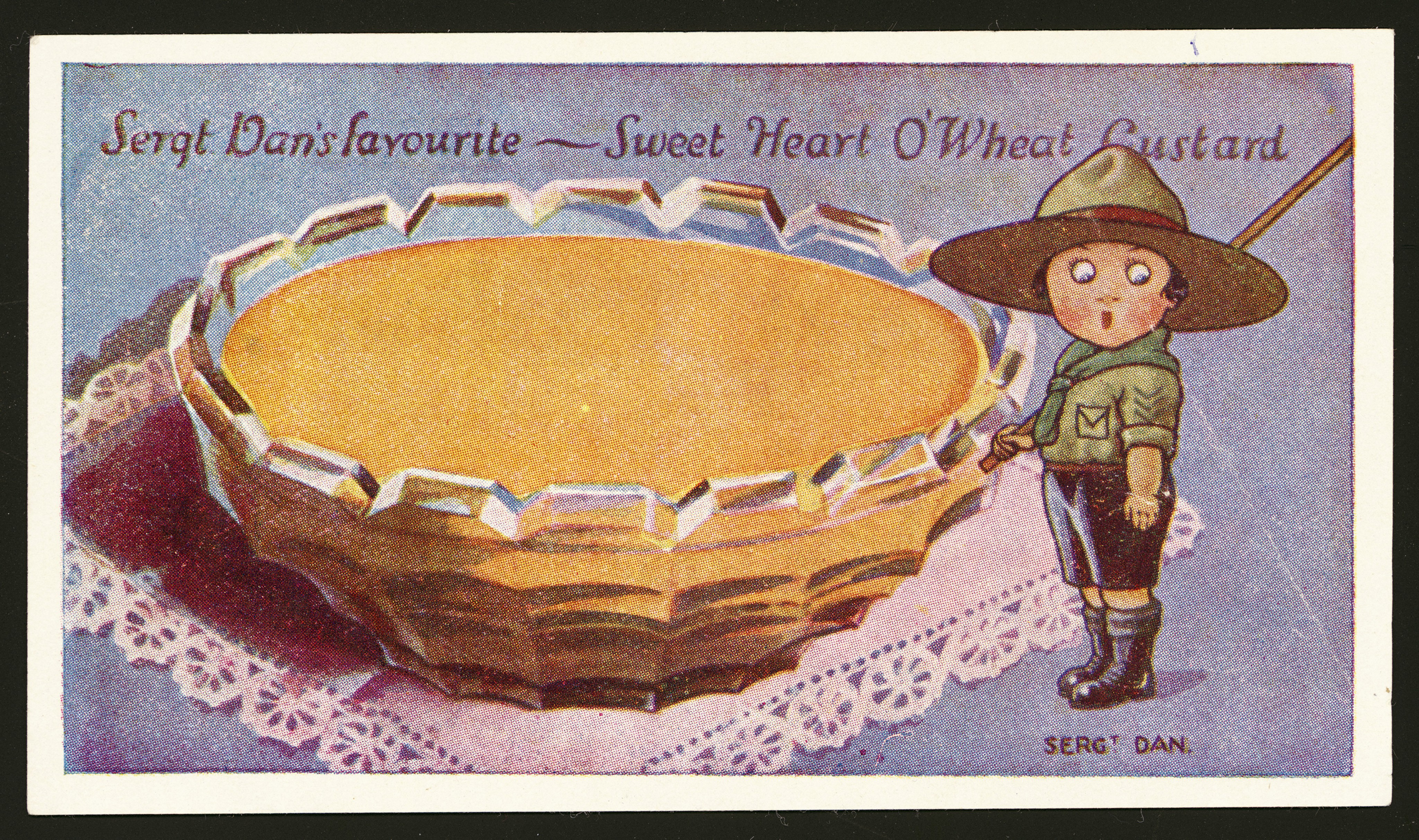 Fleming & Co. (N.Z.), Sergt. Dan's favourite - Sweet Heart O'Wheat custard, 1933, Photolithograph, 64 x 111 mm, Printed Ephemera Collection, Alexander Turnbull Library, Reference: Eph-A-FOOD-1933-01 Young Sergeant Dan became a well-known mascot for Fleming’s ‘Creamoata’. He was a figure designed initially by Charlotte Lawlor (1879-1941), while she was working for the advertising agency, Chandler and Co in Auckland in the early 1920s. Later illustrations made Sergeant Dan a more mature adventurer, but the appeal of this small round-eyed figure is more timeless, and was the version used on the side of Fleming’s Creamoata factory in Gore. Take a closer look